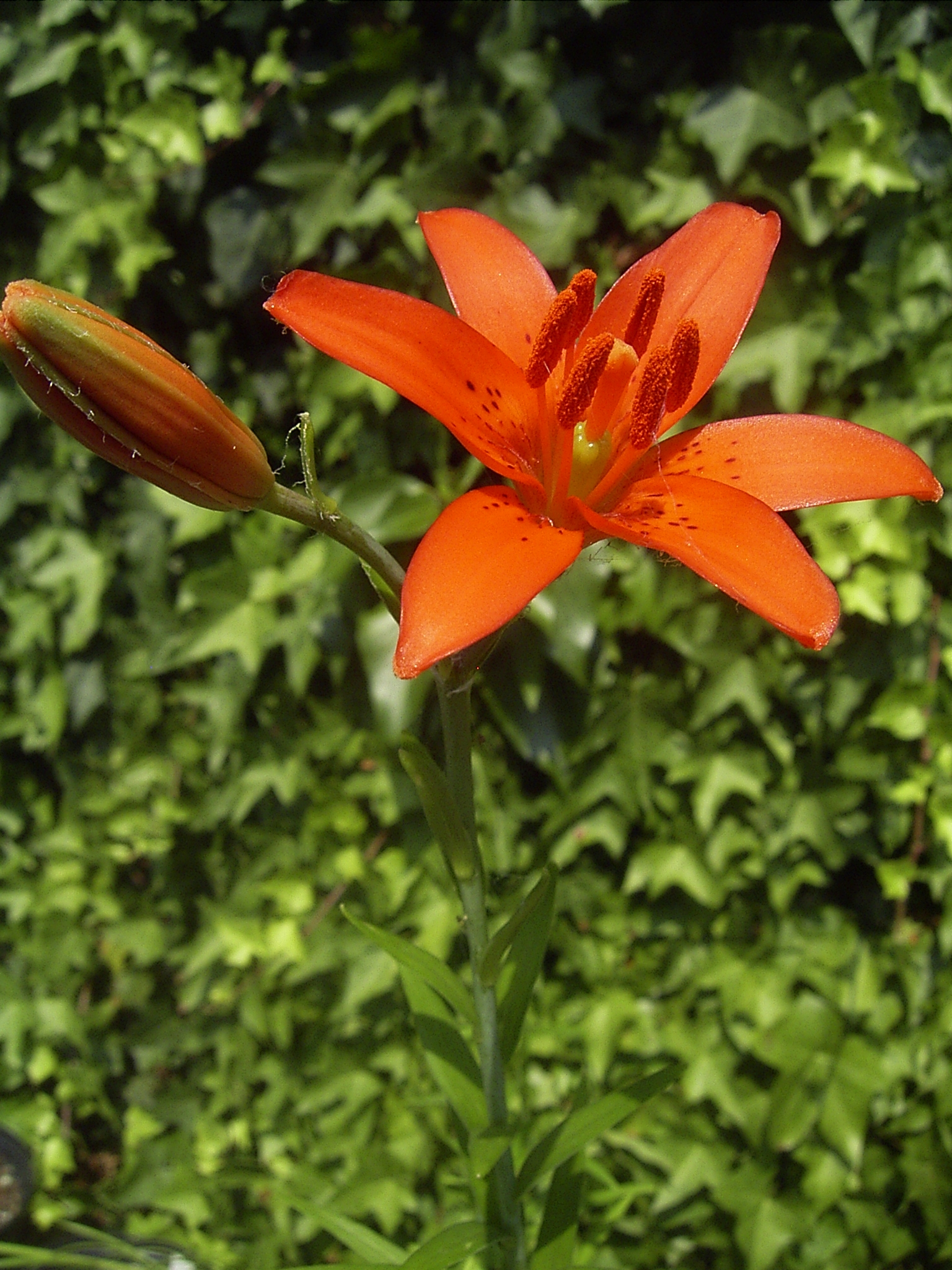 Lilium concolor, July 2006.